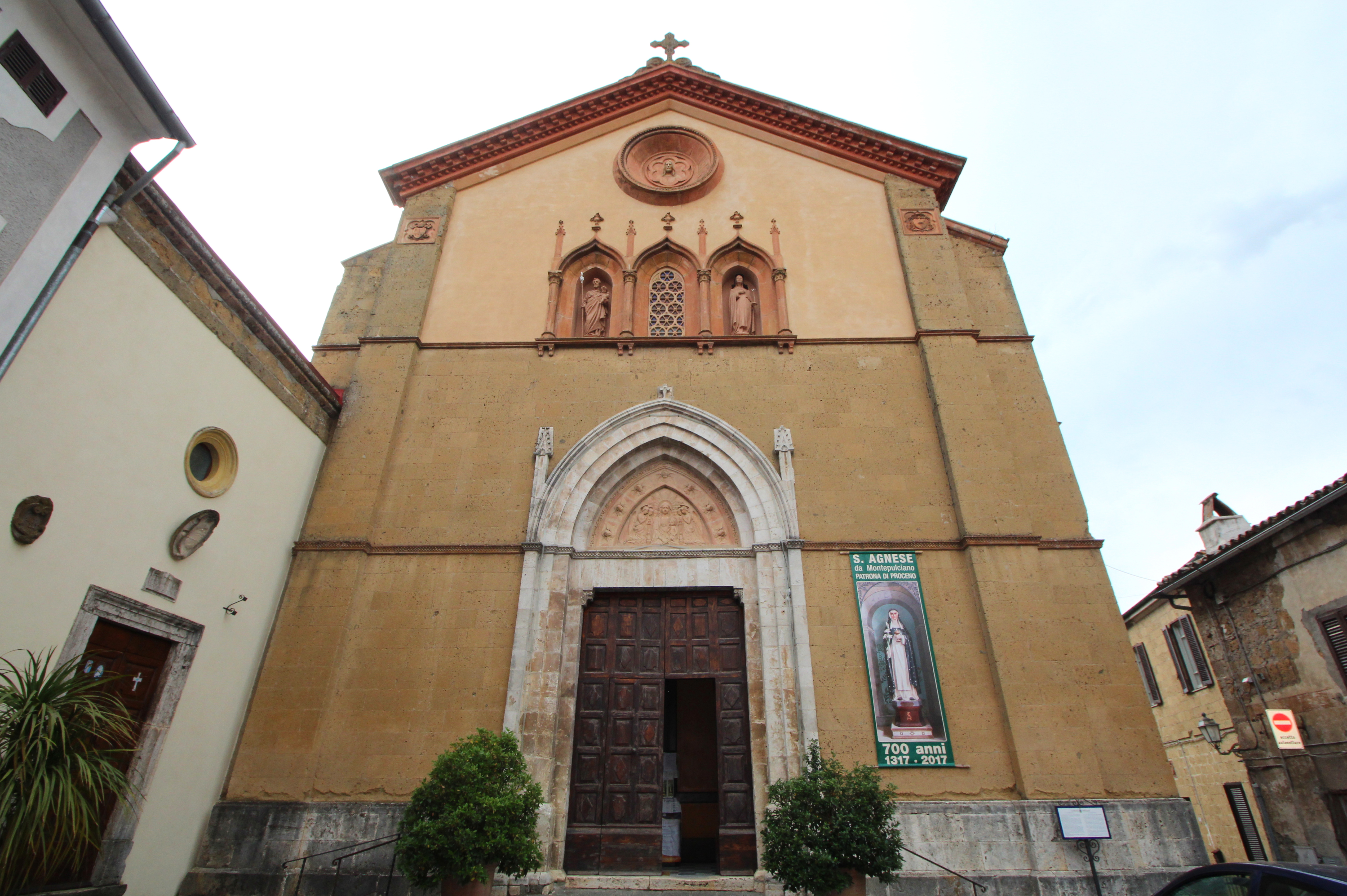 Church San Salvatore, Proceno, Province of Viterbo, Lazio, Italy